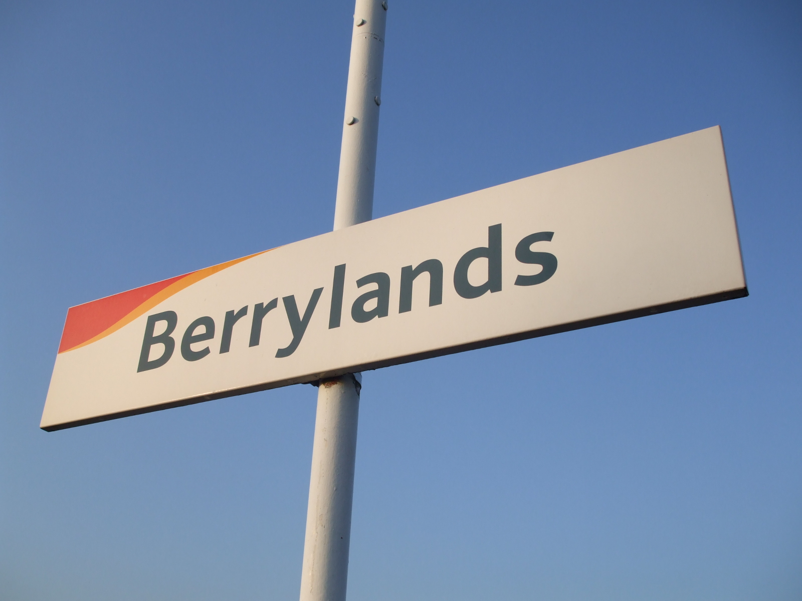 Berrylands station platform signage, in South West Trains colours